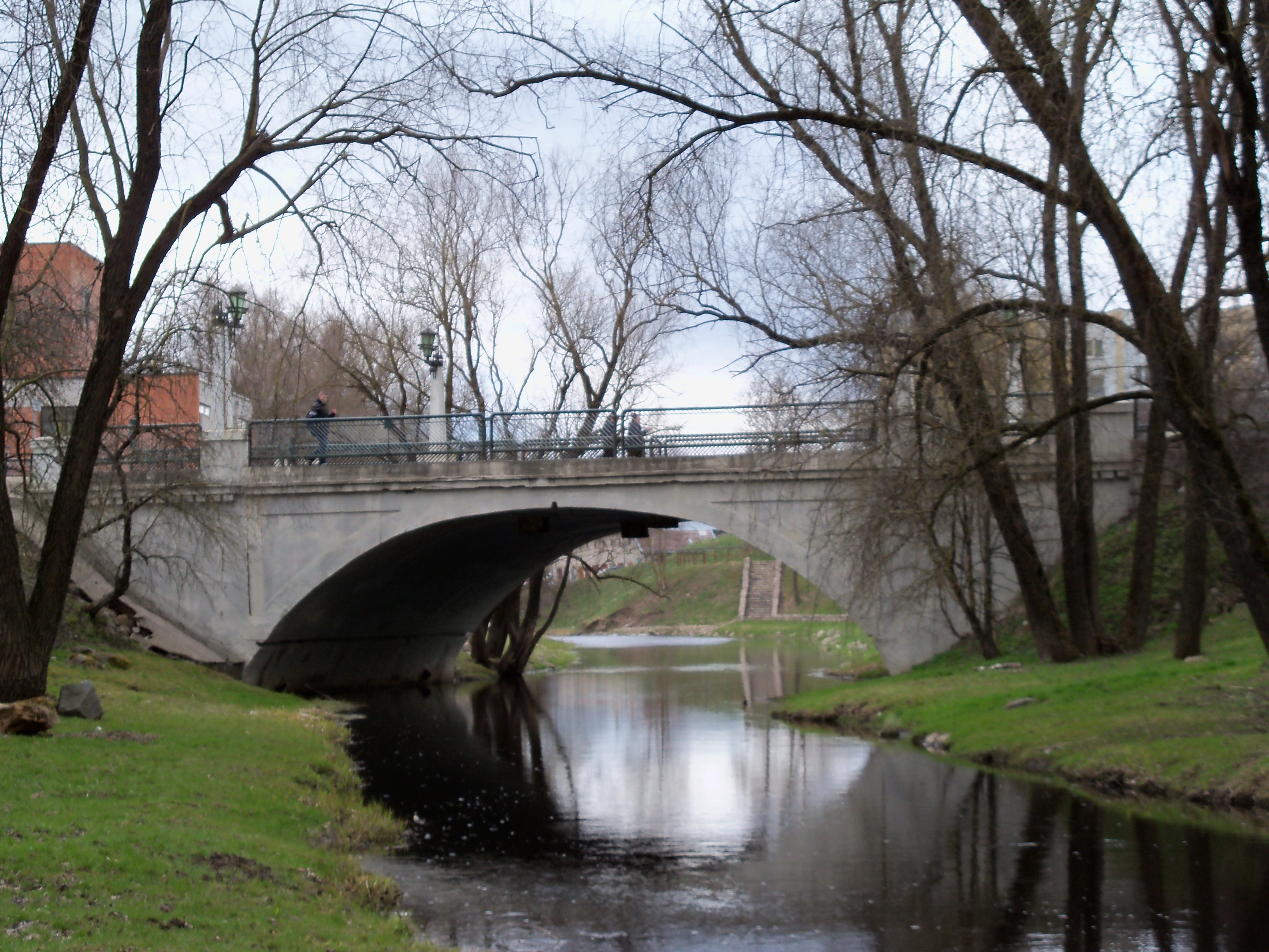 Gediminas bridge in Kupiškis, Lithuania from east.